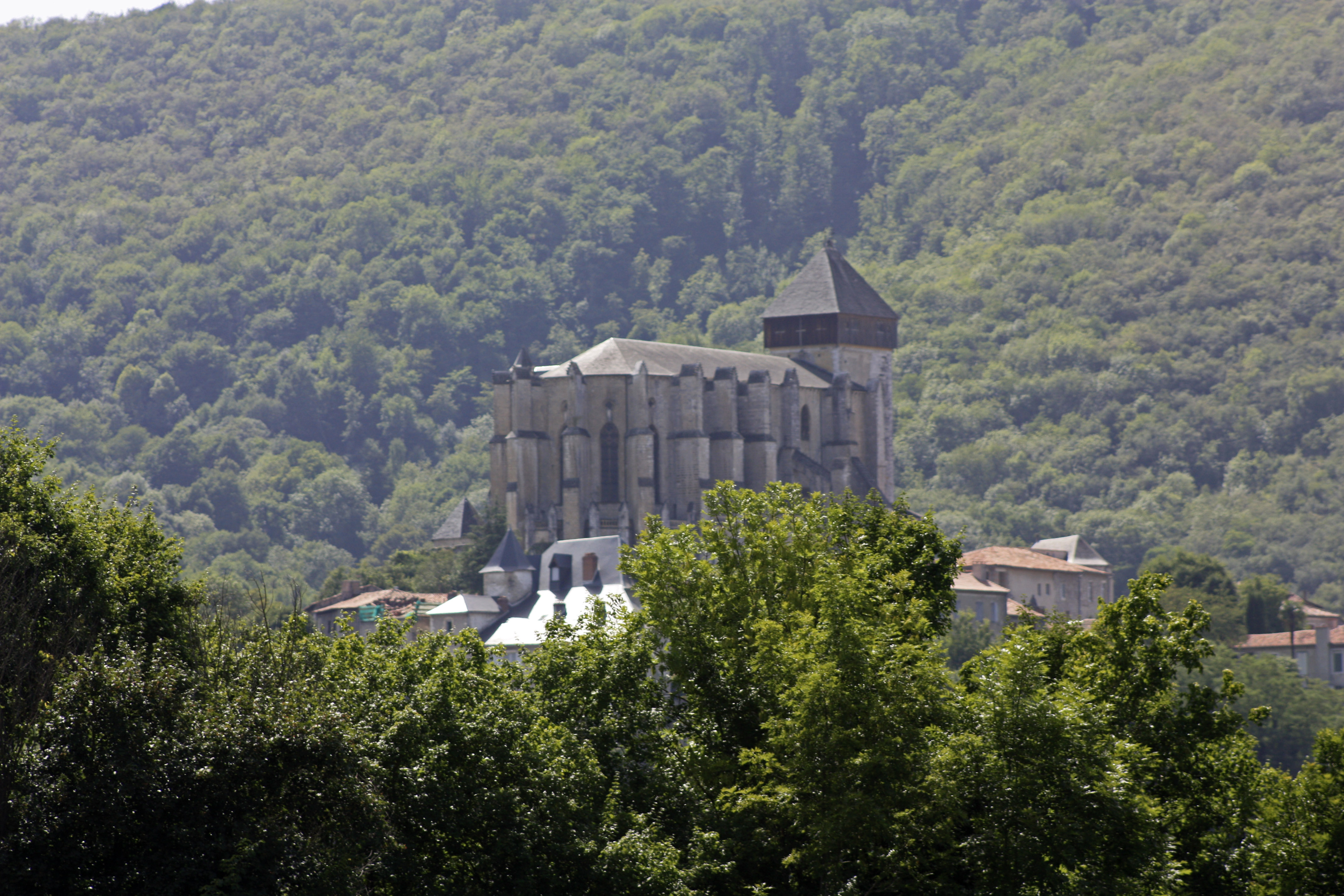 The cathedral of Saint-Bertrand-de-Comminges, view from Valcabrère.